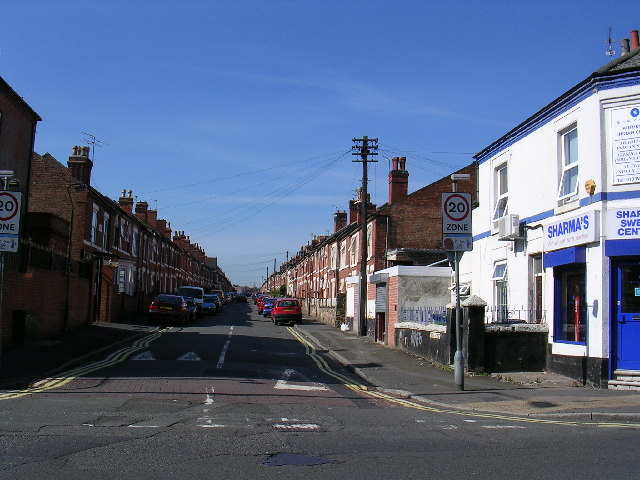 Pear Tree in Derby, Derbyshire. Terraced houses in Crewe Street, Derby The scene is typical of the many streets of terraced houses in the Pear Tree area of Derby